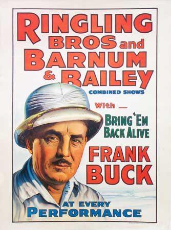 rationale for Ringling Bros. and Barnum & Bailey Circus This image is being used to illustrate the article on the Ringling Bros. and Barnum & Bailey Circus and is used for informational or educational purposes only. This image is of low resolution. It is believed that this image will not devalue the ability of anyone to profit from the original work. The copyright on this image was never renewed, and it is now in the public domain. Source: New York Public Library Use Ringling Bros. and Barnum & Bailey Circus